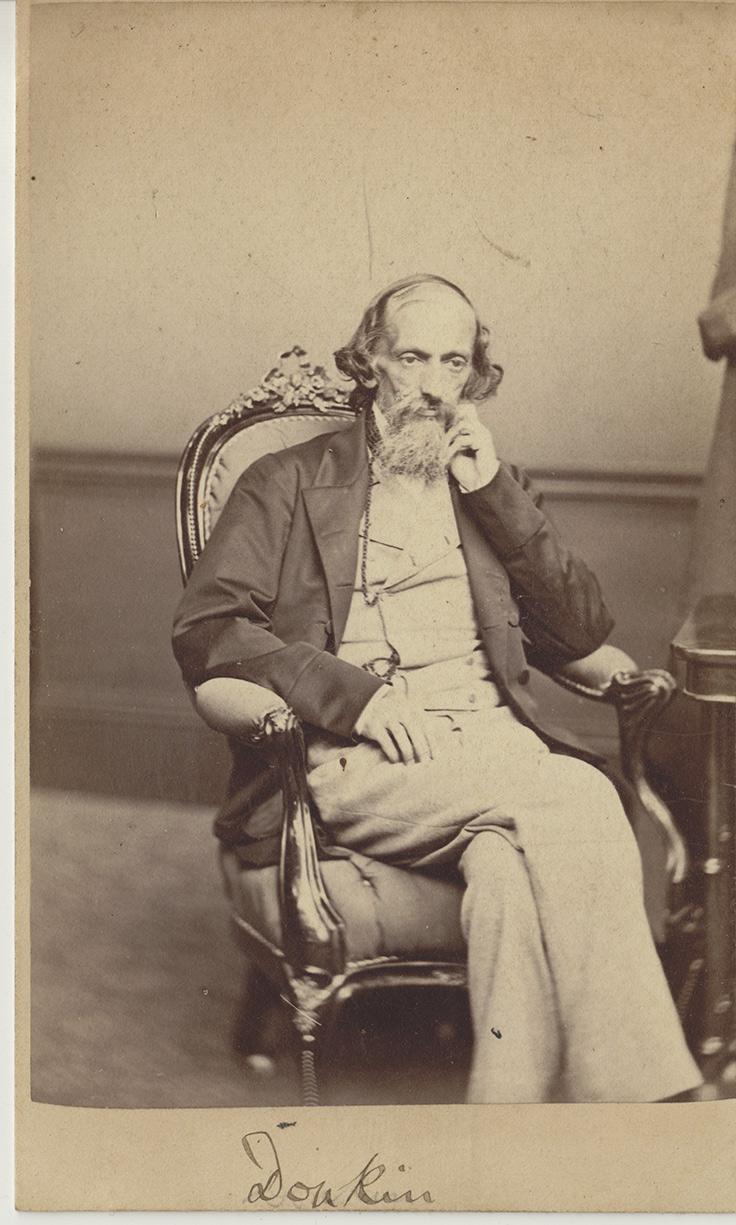 William Fishburn Donkin, Savillian Professor of Astronomy, University College, Oxford